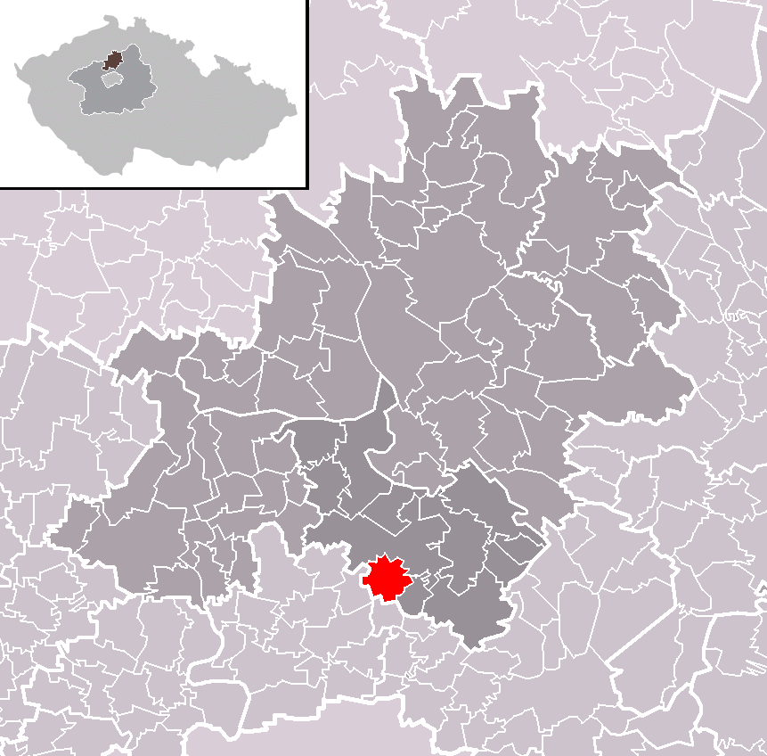 Location of Kojetice municipality within Mělník District and administrative area of Neratovice as a Municipality with Extended Competence.